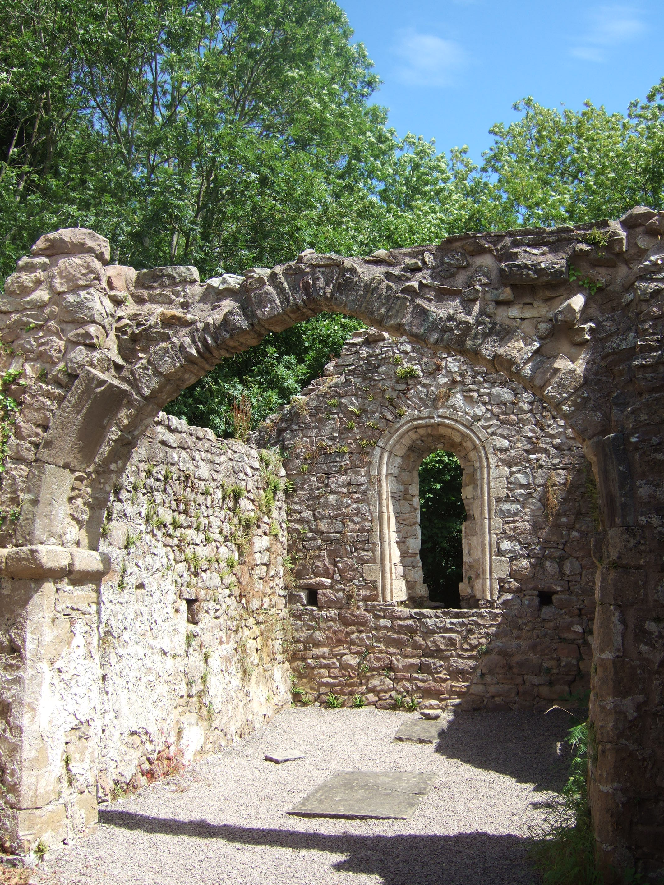 Nave of St James' church, Lancaut, Wye valley